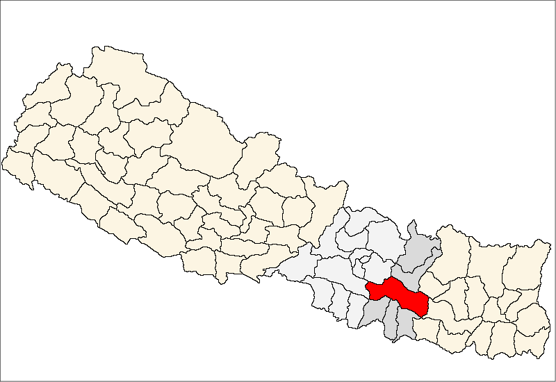 FrenchCarte de localisation dudistrict de Sindhuli(wp-FR),au Népal (wp-FR).EnglishLocation map ofSindhuli District(wp-EN),in Nepal (wp-EN).